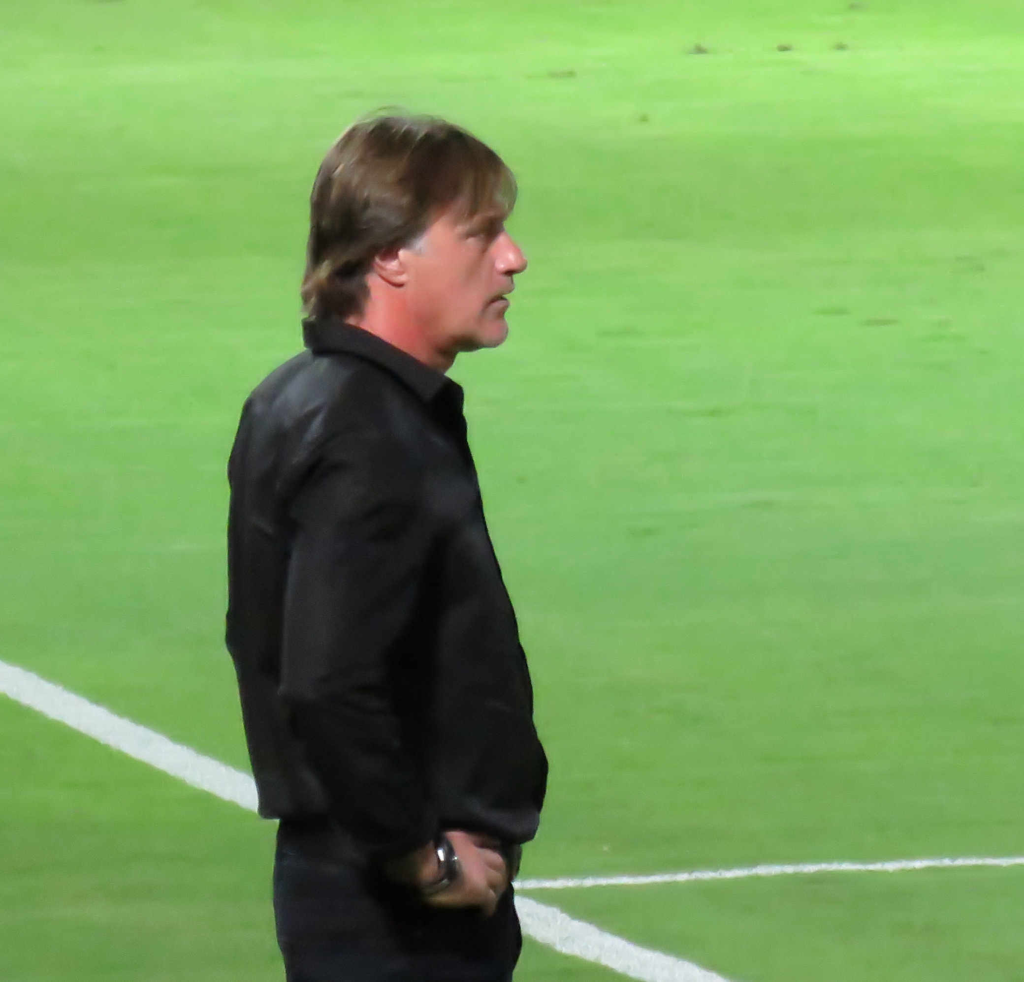 Bnei Yehuda Tel Aviv vs. Beitar Jerusalem - 19 September, 2015